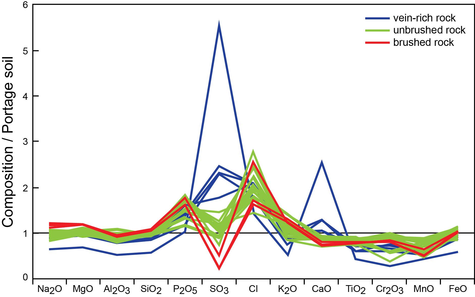 PIA16791: Elemental Compositions of 'Yellowknife Bay' Rocks Target Name: Mars Mission: Mars Science Laboratory (MSL) Spacecraft: Curiosity Instrument: Alpha Particle X-ray Spectrometer (MSL) Product Size: 1883 x 1179 pixels (width x height) Produced By: JPL Full-Res TIFF: PIA16791.tif (6.663 MB) Full-Res JPEG: PIA16791.jpg (161.1 kB) Click on the image above to download a moderately sized image in JPEG format (possibly reduced in size from original) Original Caption Released with Image: Researchers have used the Alpha Particle X-ray Spectrometer (APXS) instrument on the robotic arm of NASA's Mars rover Curiosity to determine elemental compositions of rock surfaces at several targets in the "Yellowknife Bay" area of Gale Crater. This graphic presents results from APXS, with the comparisons simplified across diverse elements by dividing the amount of each element measured in the rocks by the amount of the same element in a local soil, called "Portage." Vein-rich rocks contain elevated abundances of sulfur and calcium. Other rock targets are remarkably uniform in composition and similar to the Portage soil, excepting high chlorine. Brushing by Curiosity's Dust Removal Tool reveals lower abundances of sulfur in the rock than in the dust coating that the brushing removed. NASA's Jet Propulsion Laboratory, Pasadena, Calif., manages the Mars Science Laboratory Project and the mission's Curiosity rover for NASA's Science Mission Directorate in Washington. The rover was designed and assembled at JPL, a division of the California Institute of Technology in Pasadena. More information about Curiosity is online at and Image Credit: NASA/JPL-Caltech/University of Guelph Image Addition Date: 2013-03-18